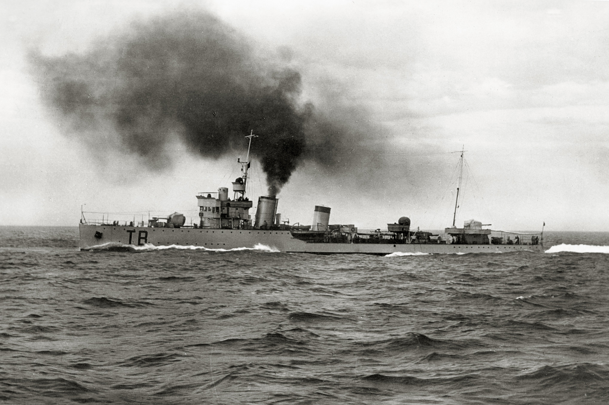 RIN Turbine in navigation (mid 1930s)